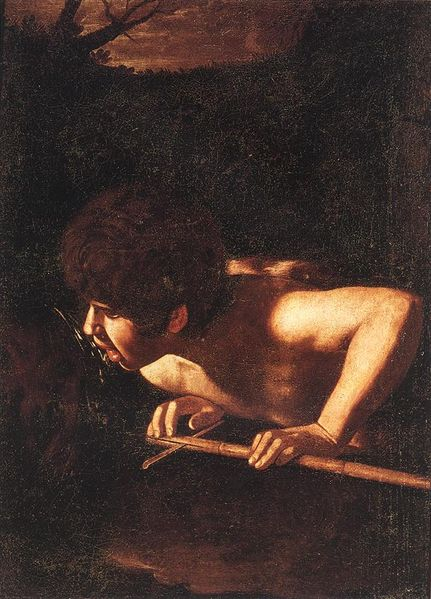 John the Baptist by Caravaggio (1571-1610), from Web Gallery of Art. Web Gallery of art has agreed to the use of images on Wikipedia. Author of the original painting has been dead moe than 100 years.